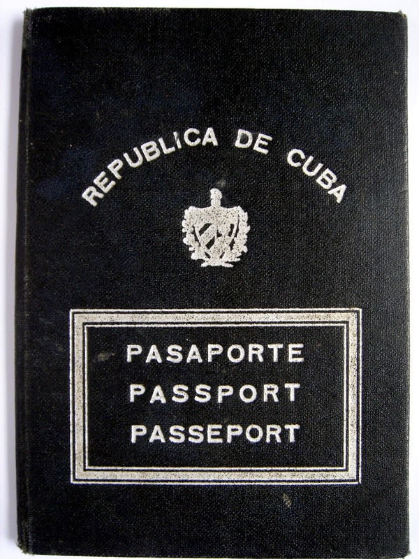 Cuban passport, 1942